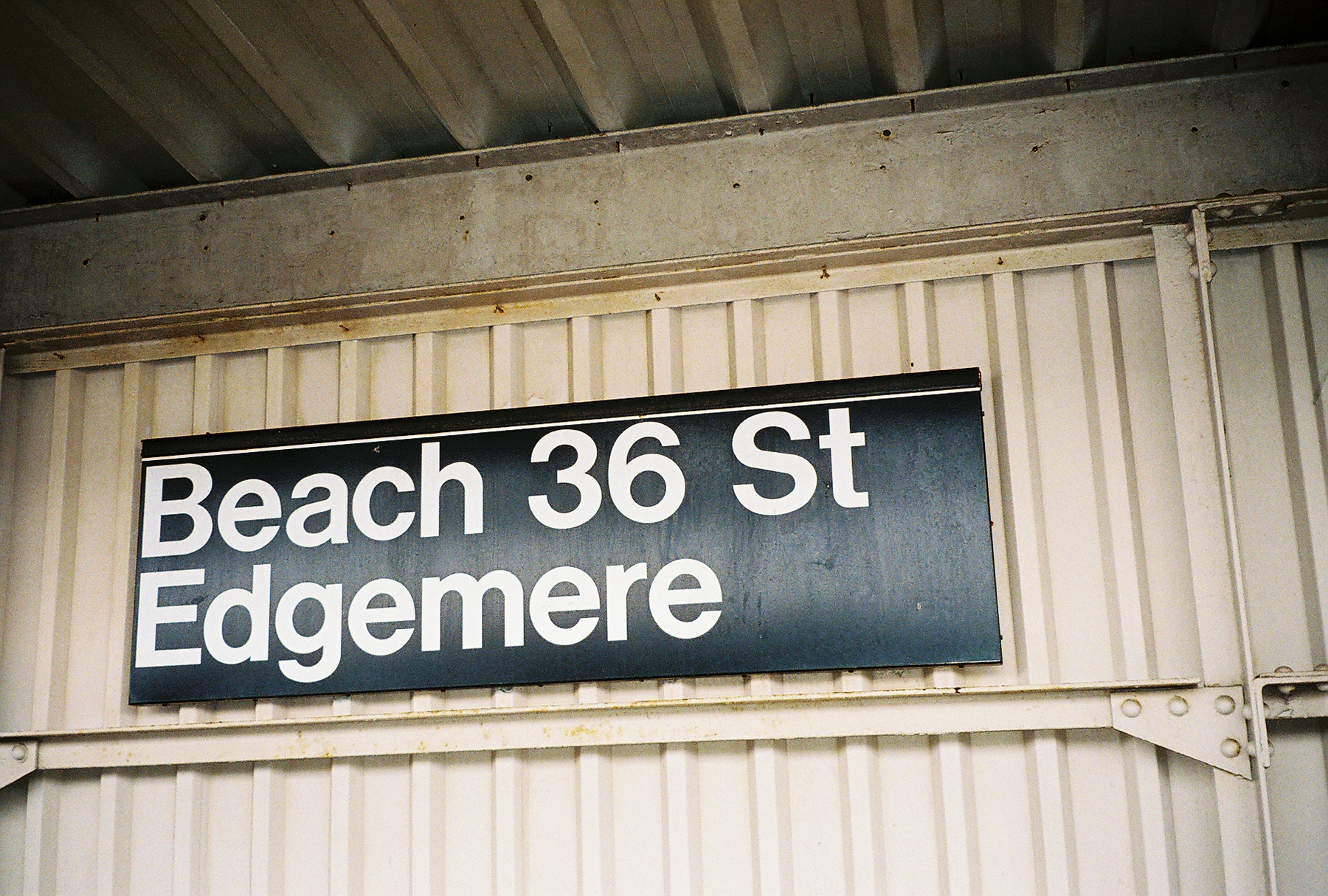 Photo of subway station.